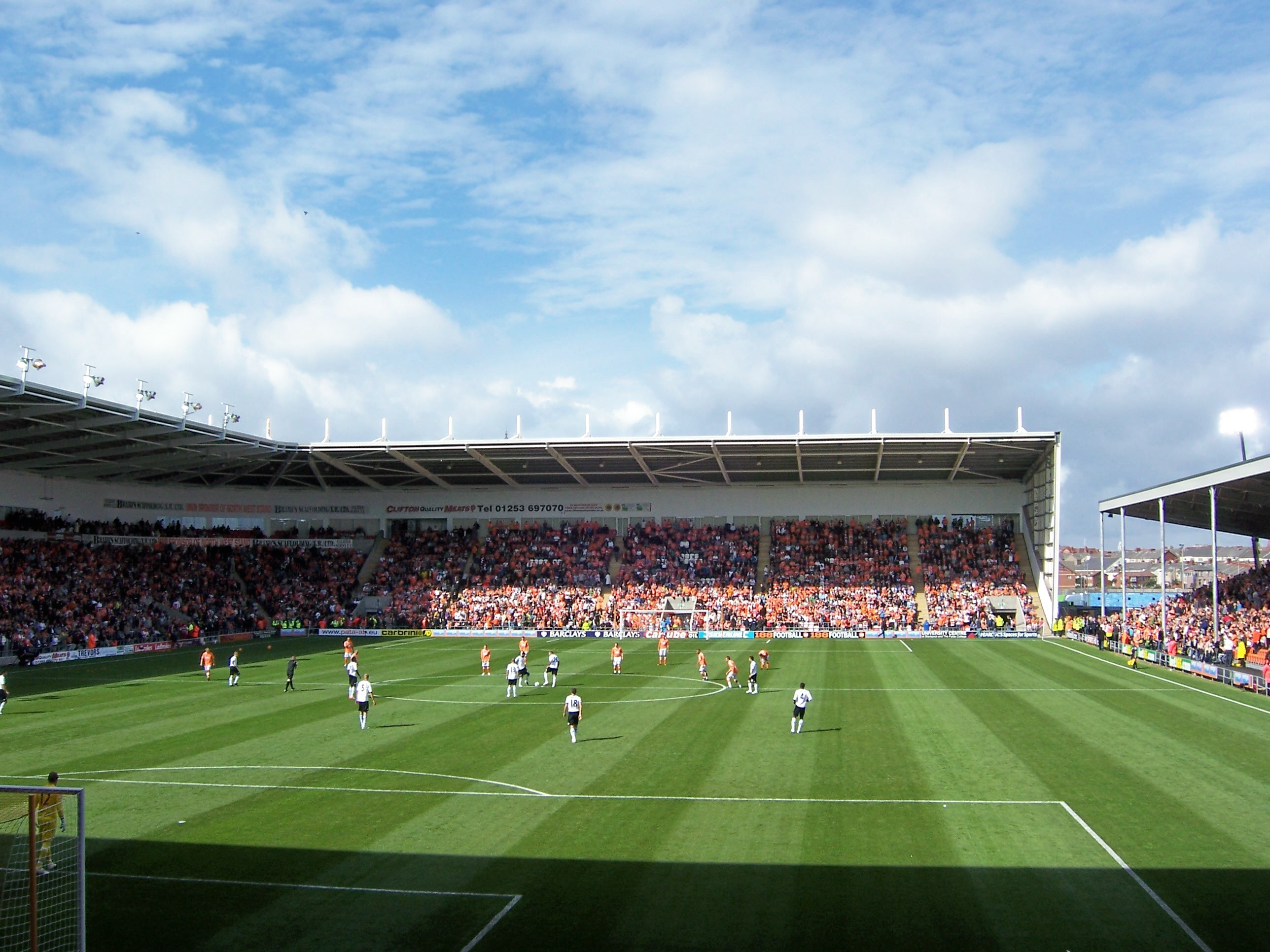 Premier League Kick Off at Bloomfield Road, Blackpool, 28 August 2010 3.00pm at Bloomfield Road and the first ever Premier League game at Bloomfield Road - Blackpool -v- Fulham is underway.